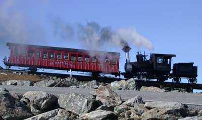 Mount Washington Cog Railway (taken Sept. 22, 2004) &169l; 2004 Matthew Trump